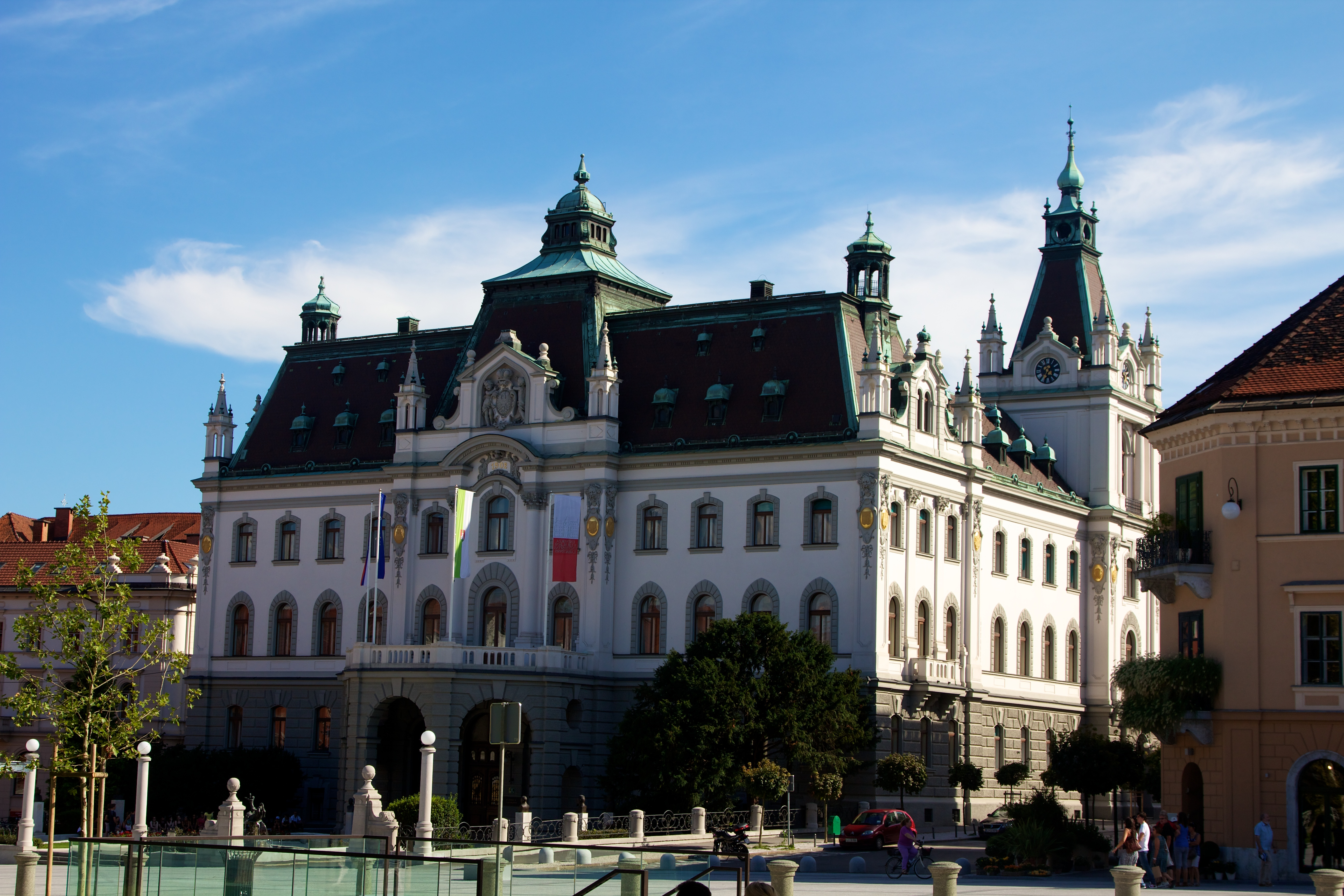 University of Ljubljana 004